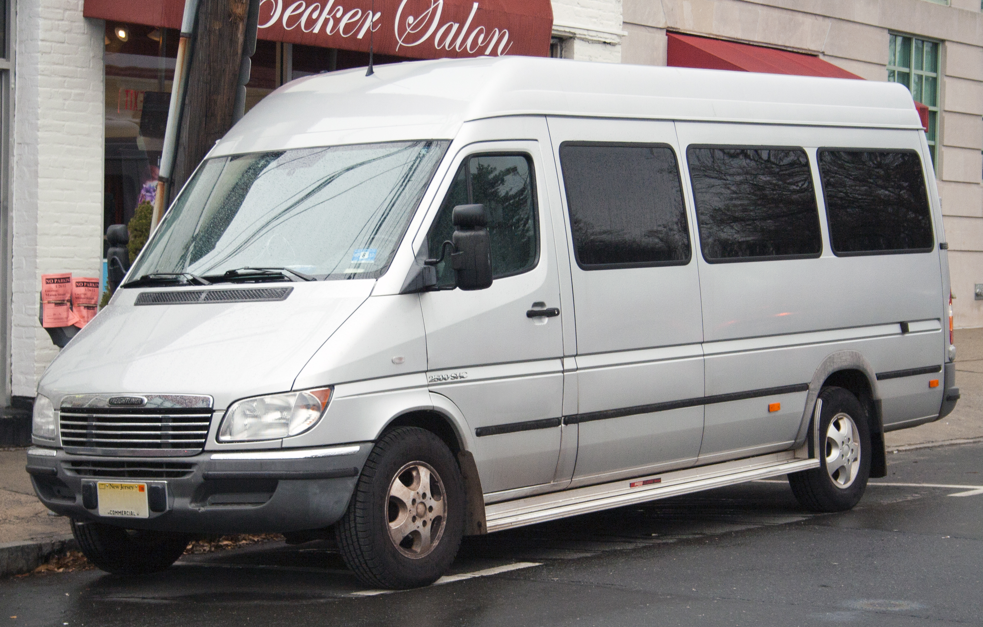 Freightliner Sprinter 2500 SHC, a special version for passenger transport